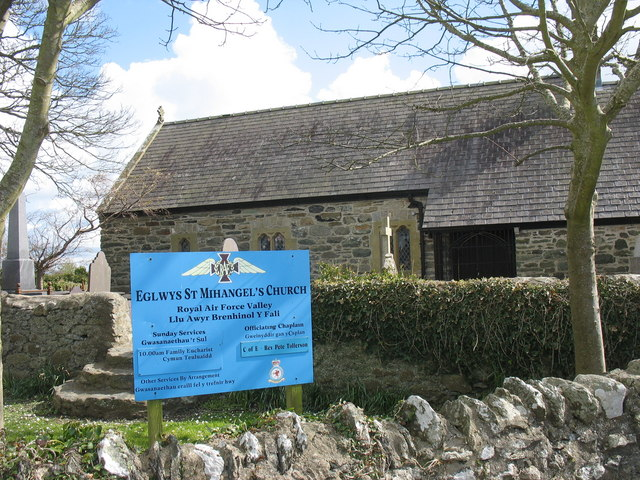 Eglwys St Mihangel Church - The RAF Church. St Mihangel's Church maintained by the RAF is used as the Anglican and the Scottish Free Church place of worship. 760894